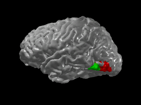 Possible neural basis for grapheme-color synesthesia. The region of the visual pathway involved in recognizing letters and numbers (graphemes) is indicated in green, while one a region involved in color processing (hV4) is indicated in red. Due to the adjacency of these regions, there is an increased probability of connections being retained, leading to cross-activation between the grapheme area and hV4. Edward M. Hubbard, Image first appeared in Ramachandran and Hubbard, 2001. As authors own work, journal has granted permission for use on wikipedia and creative commons projects.